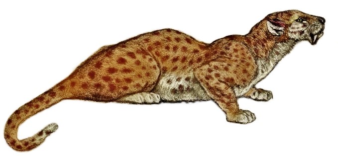 Life restoration of Hoplophoneus primaevus from W.B. Scott's A History of Land Mammals in the Western Hemisphere. New York: The Macmillan Company.